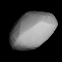 3D convex shape model of 749 Malzovia, computed using light curve inversion techniques. J. Hanuš, J. Ďurech, M. Brož, B. D. Warner (June 2011). "A study of asteroid pole-latitude distribution based on an extended set of shape models derived by the lightcurve inversion method". Astronomy and Astrophysics 530: A134. ISSN 0004-6361. arXiv